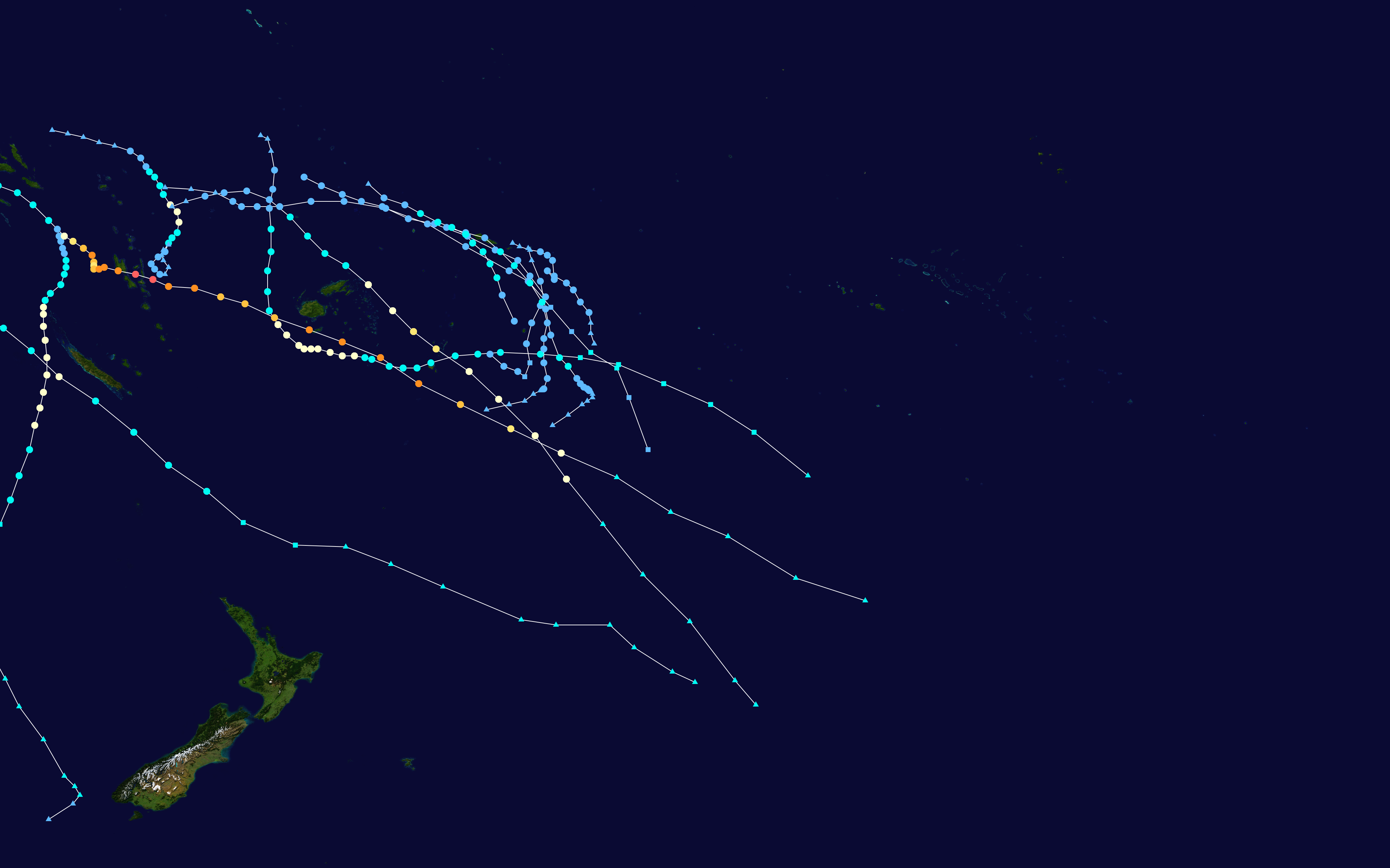 This map shows the tracks of all tropical cyclones in the 2019-20 South Pacific cyclone season. The points show the location of each storm at 6-hour intervals. The colour represents the storm's maximum sustained wind speeds as classified in the Saffir-Simpson Hurricane Scale (see below), and the shape of the data points represent the type of the storm. Map generation parameters: --res 4000 --extra 1 --dots 0.2 --lines 0.04 --xmax 240 --xmin 160 --ymax 0 --ymin -50 Saffir–Simpson scale Tropical depression≤38 mph≤62 km/h Category 3111–129 mph178–208 km/h Tropical storm39–73 mph63–118 km/h Category 4130–156 mph209–251 km/h Category 174–95 mph119–153 km/h Category 5≥157 mph≥252 km/h Category 296–110 mph154–177 km/h Unknown Storm type Tropical cyclone Subtropical cyclone Extratropical cyclone / Remnant low / Tropical disturbance / Monsoon depression